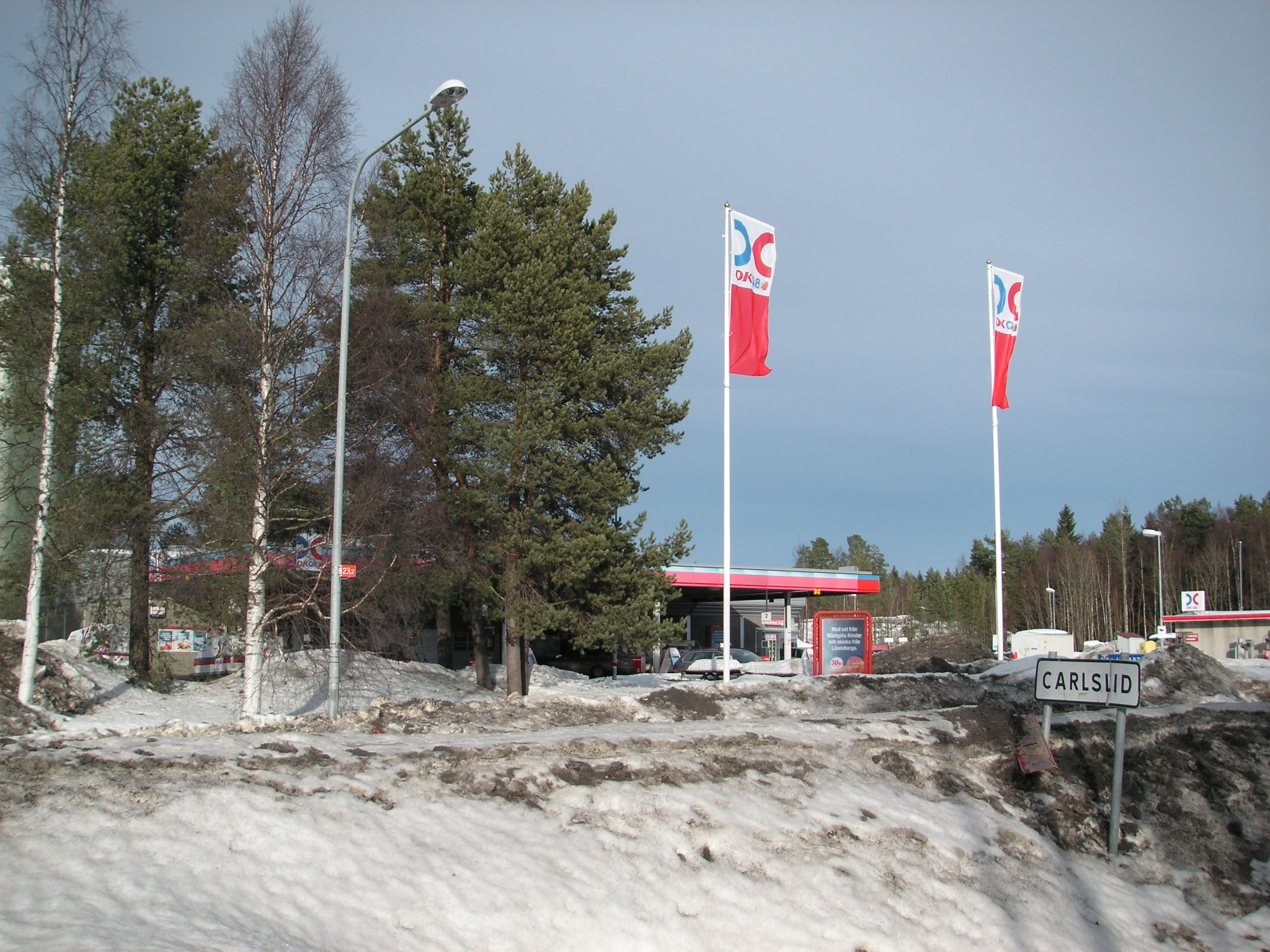 Gas station OKQ8 at Carlslid, Umeå, Sweden.